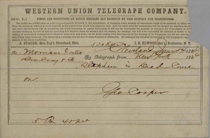 This is the telegram that communicated Stephen Foster's death